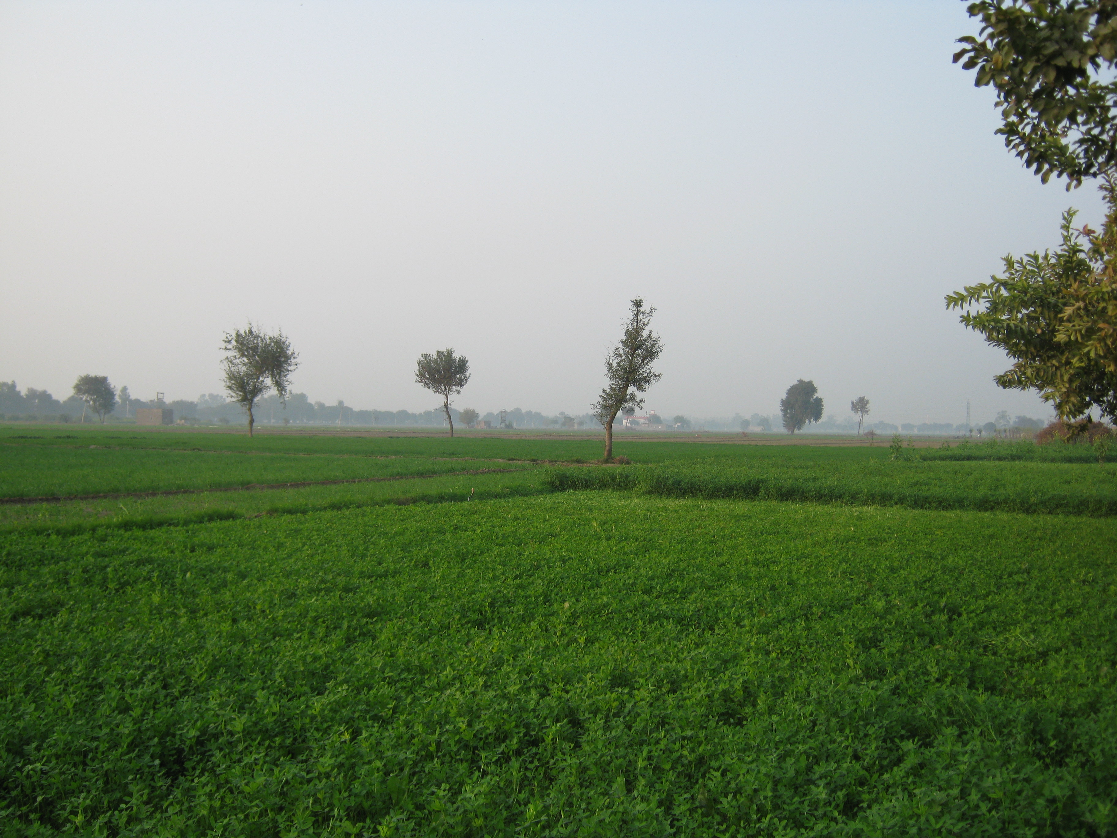 A view of green farms from "Jat farmhouse" (Dhani) in Ding moad, Sirsa / Fatehabad, Haryana , India.